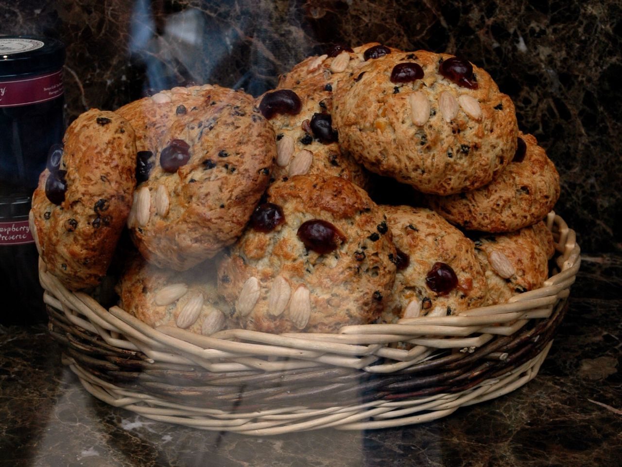 Fat Rascals at Betty's of York, UK